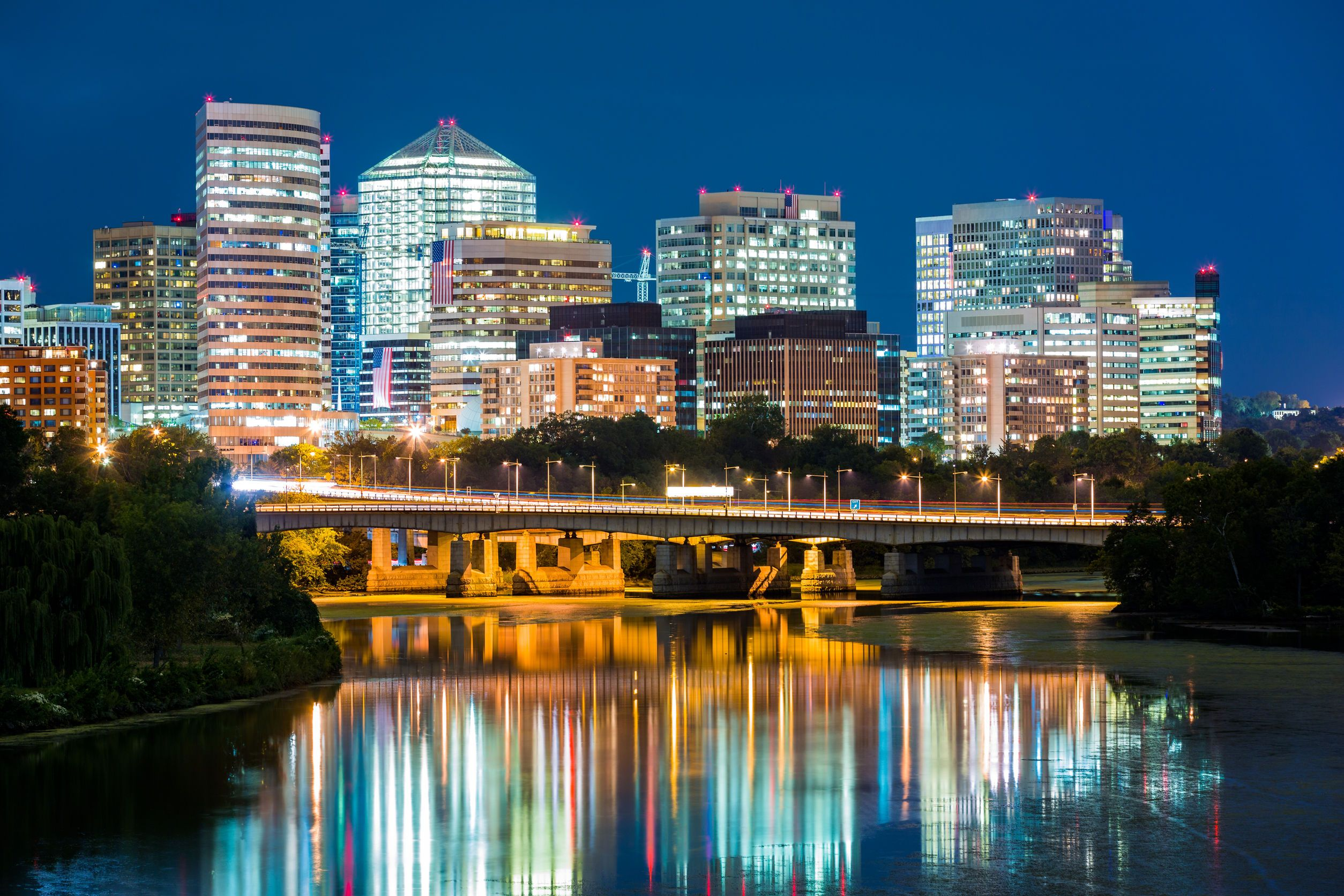 A view of Arlington, VA from neighboring Washington, D.C.